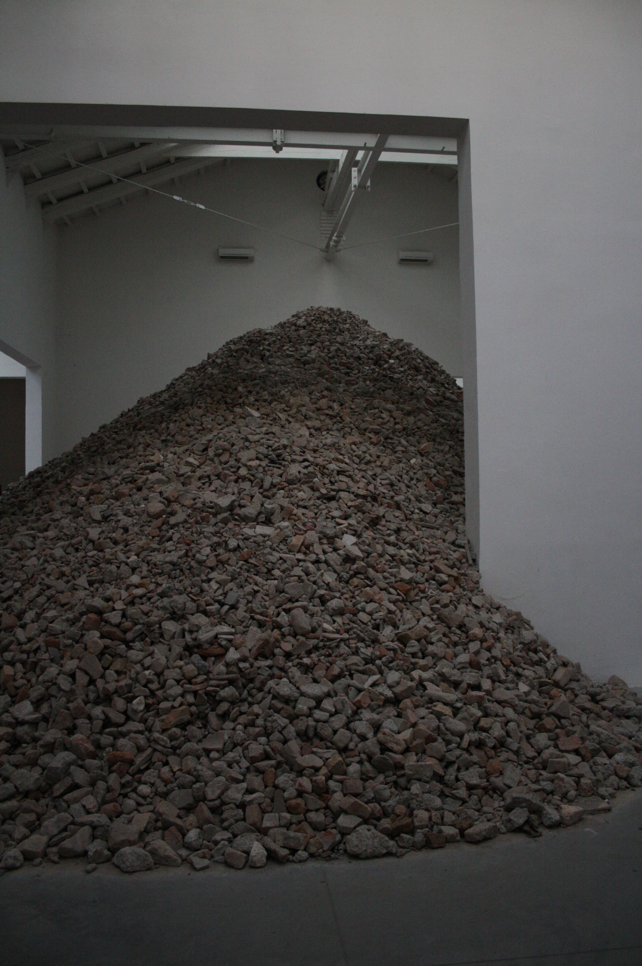 55th Venice Biennale